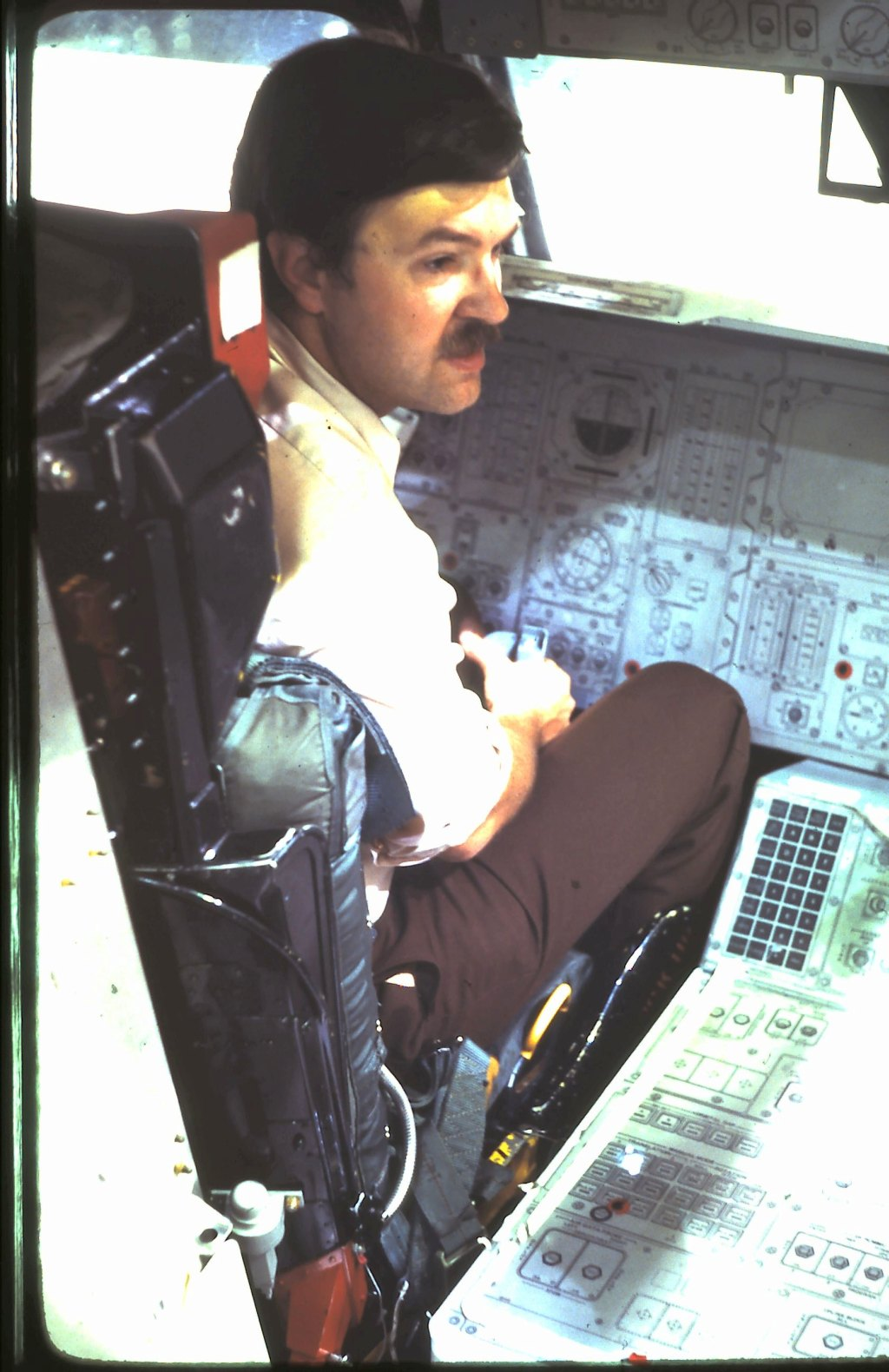 James E. Oberg visits the Space Shuttle orbiter trainer at the Johnson Space Center, Dallas, Texas, 1978.